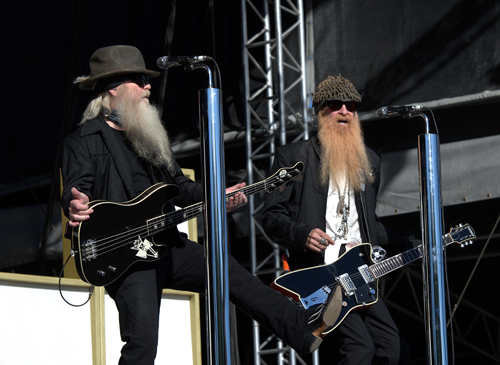 Dusty Hill (bass) and Billy Gibbons (guitar) of ZZ Top performing in Finland, in PuistoBlues 2010 Fender Telecaster “Lefty” Custom Bass Guitar Gretsch G6199 “Billy-Bo” Jupiter Thunderbird (black)